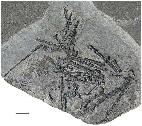 Triassic basal pterosaurus Seazzadactylus venieri, MFSN 21545 (holotype). Photograph. Scale bar equals 20 mm.